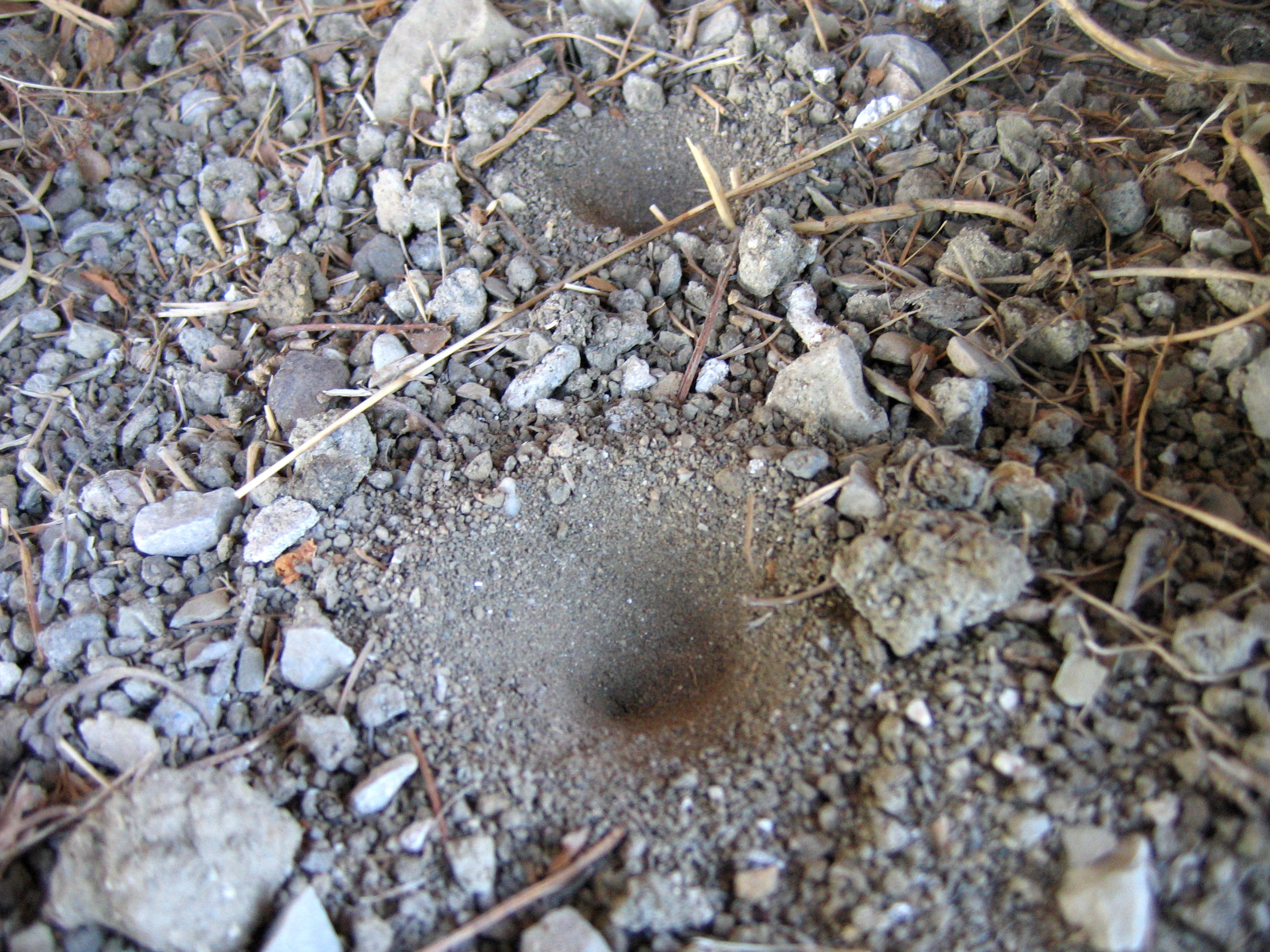 Antlion trap.